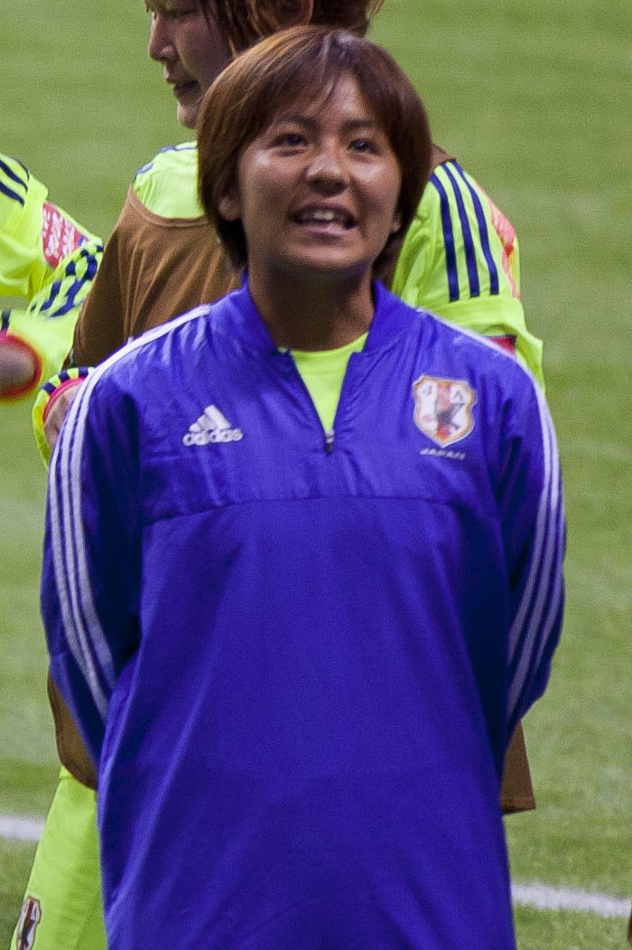 FIFA Women's World Cup Canada June 12th, 2015